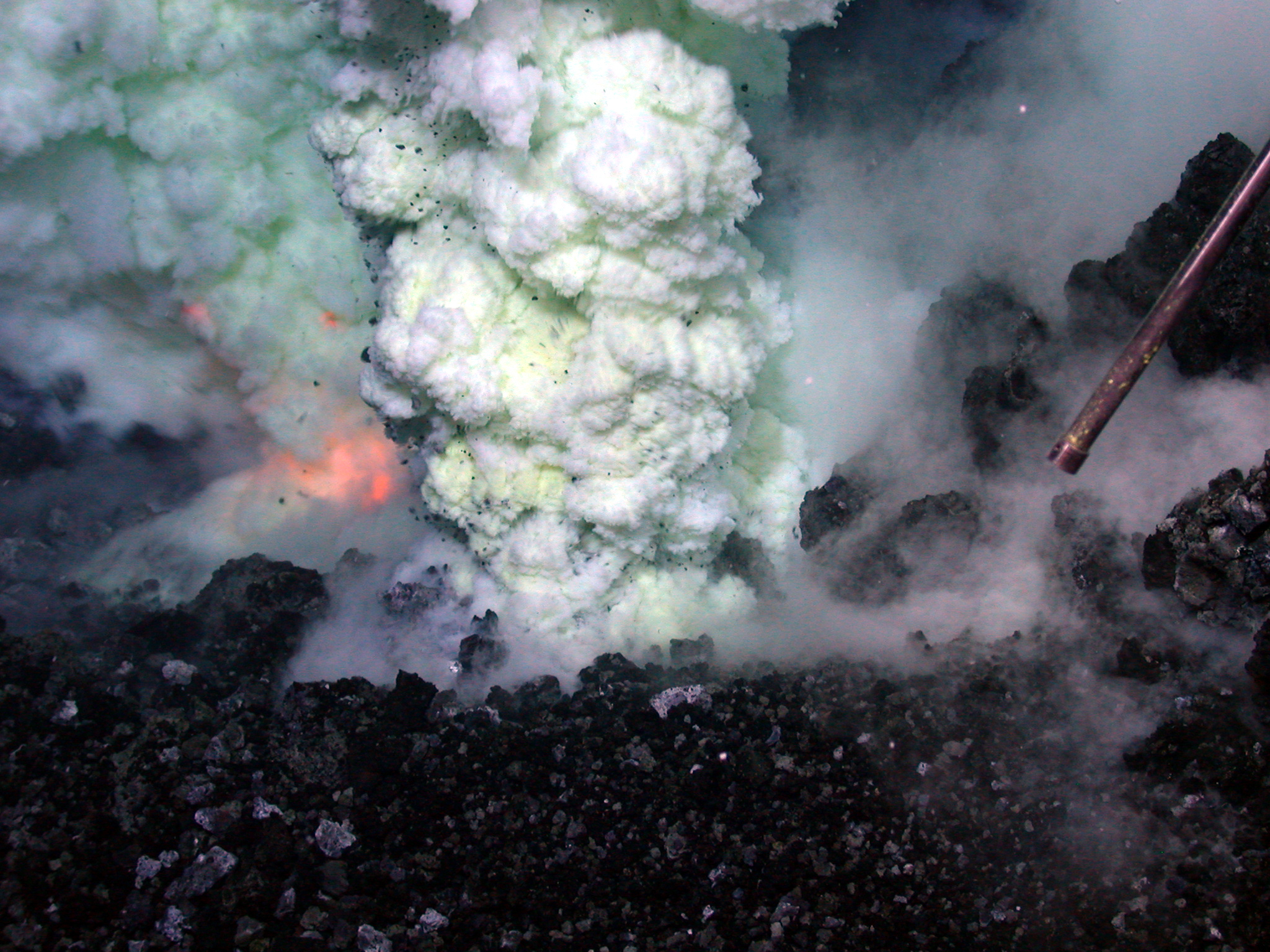 Orange glow of magma is visible on left of sulfur-laden plume. Image is about six feet across in an eruptive area about 100 yards that runs along the summit.